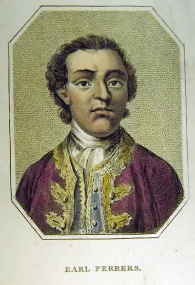 Copper engraving of Laurence Shirley, 4th Earl Ferrers (1720-1760)